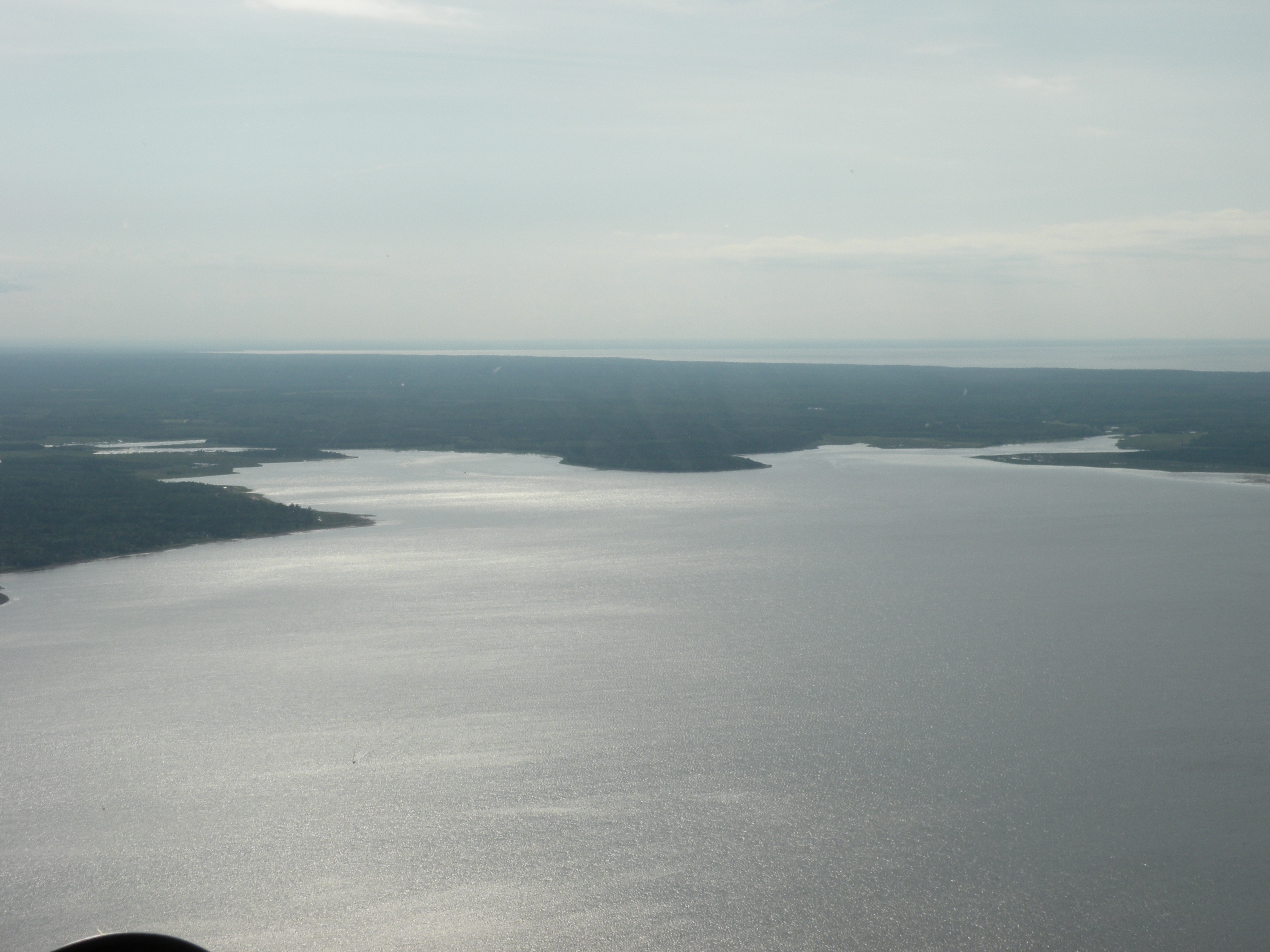 The confluence of Caraquet and Du Nord rivers, wich could be the origin of the name Caraquet.